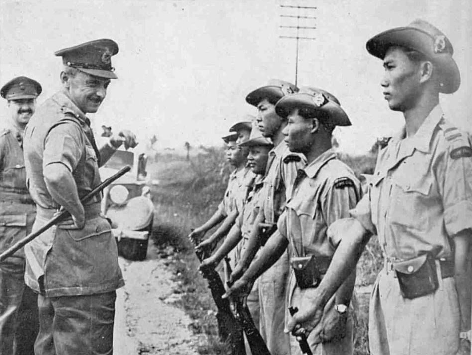 The High Commissioner in Malaya congratulates another Home Guard Unit in Malaya: Sir Gerald Templer and his assistant, Major Lord Wynford (extreme left) are seen with members of Kinta Valley Home Guard. On the right of this picture is Wong Fook Seng, the commander of the unit.